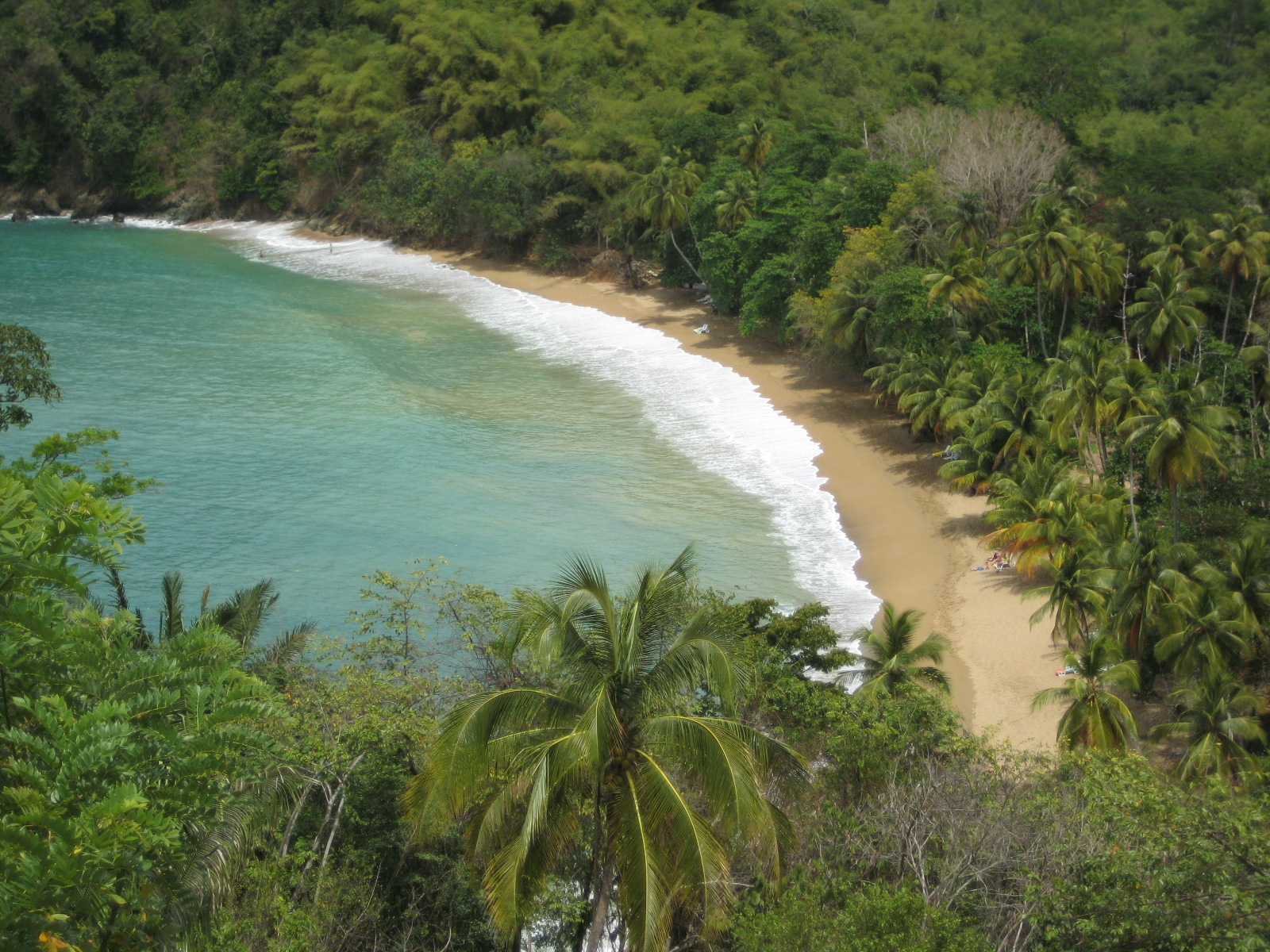 Aerial view of Englishman's Bay in Tobago, WI